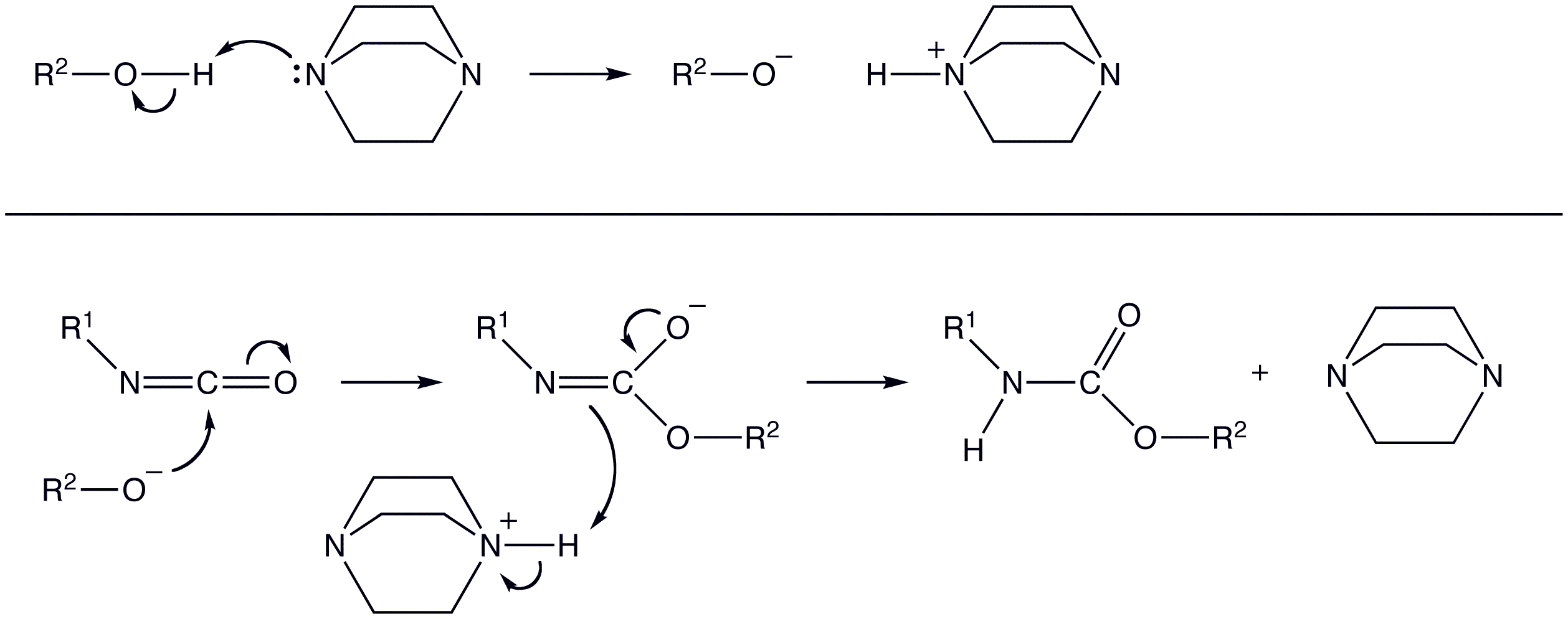 Reaction mechanism for tertiary amine-catalyzed polyurethane polymerization